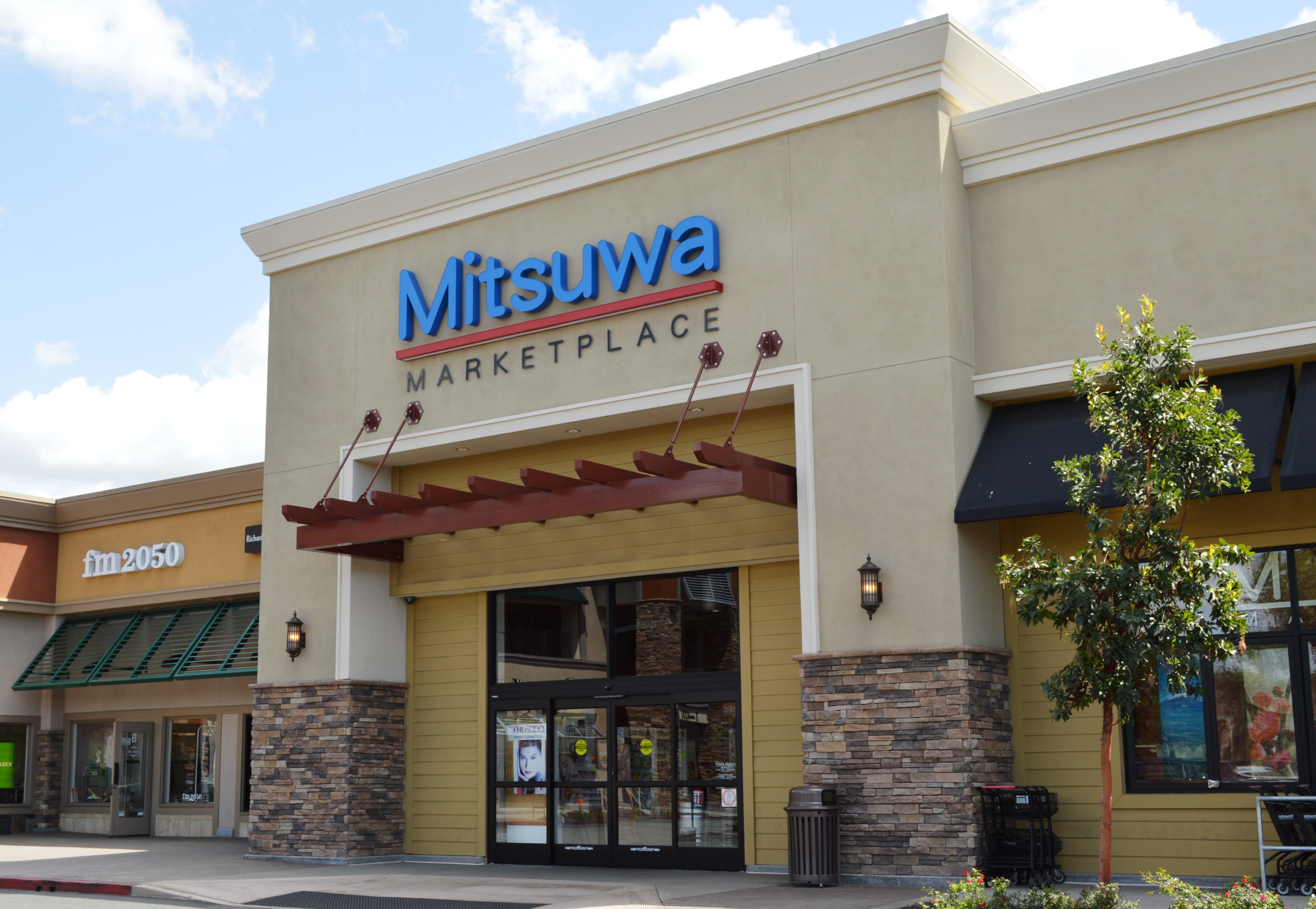 Mitsuwa Marketplace at Heritage Plaza Shopping Center - Irvine, California.